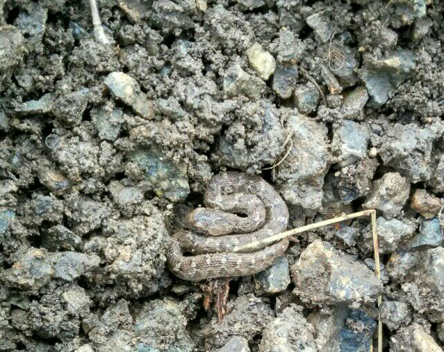 Saw-scaled viper (Echis carinatus) recorded in Dapodi, Pune, Maharashtra. Juvenile.